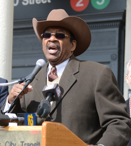 A rededication ceremony was held on Fri., March 15, 2013 at the East 180th St. station on the 2 & 5 lines in the Bronx after extensive renovation and restoration work was done. The main structure of the station was built in 1912 as part of the defunct New York, Westchester & Boston Railway, a portion of which was turned into the Dyre Ave. line by the Transit Authority in 1940. State Senator Ruben Diaz, Sr. Photo: Marc A. Hermann / MTA New York City Transit